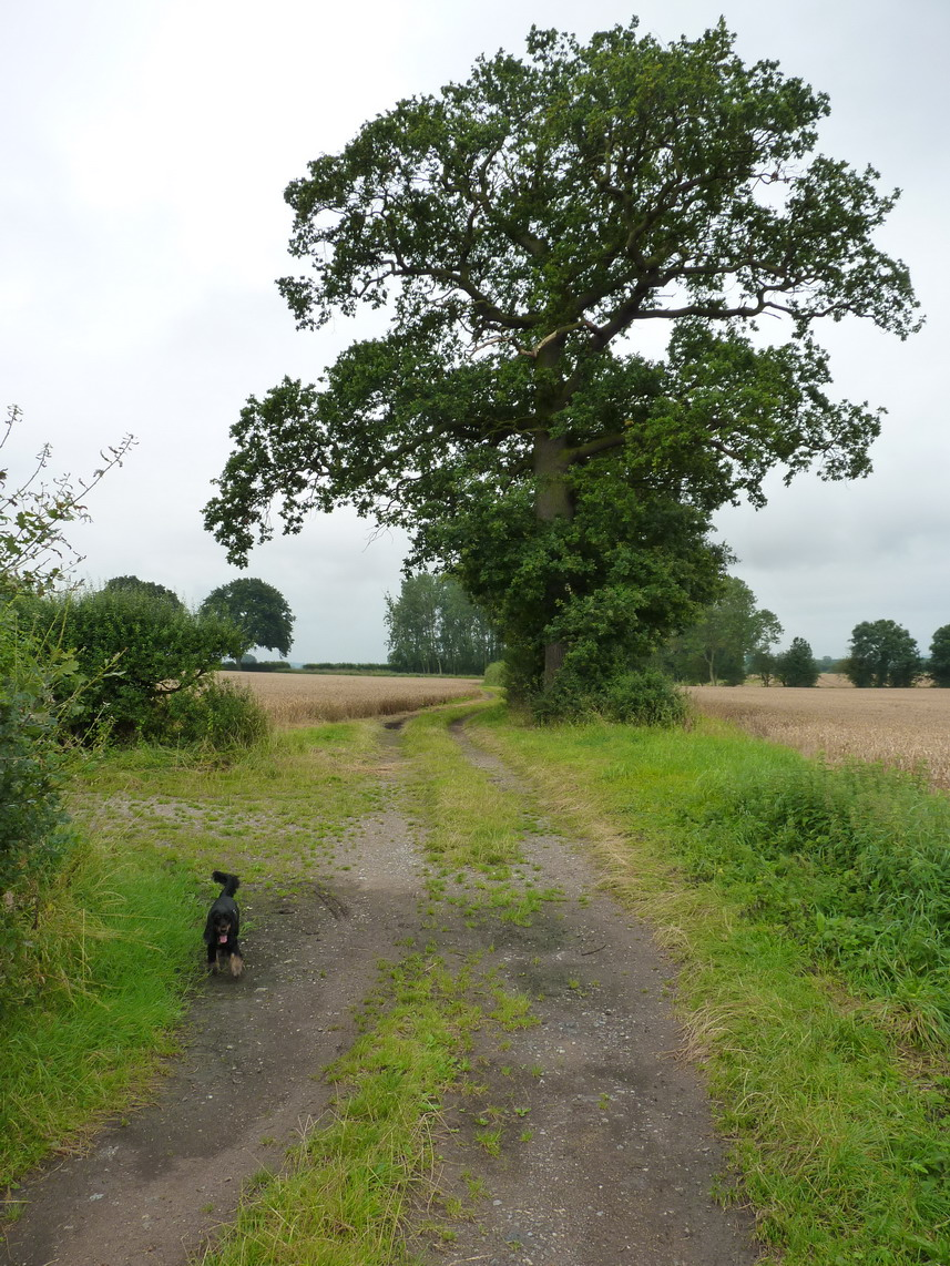 Track on the Birch Moors